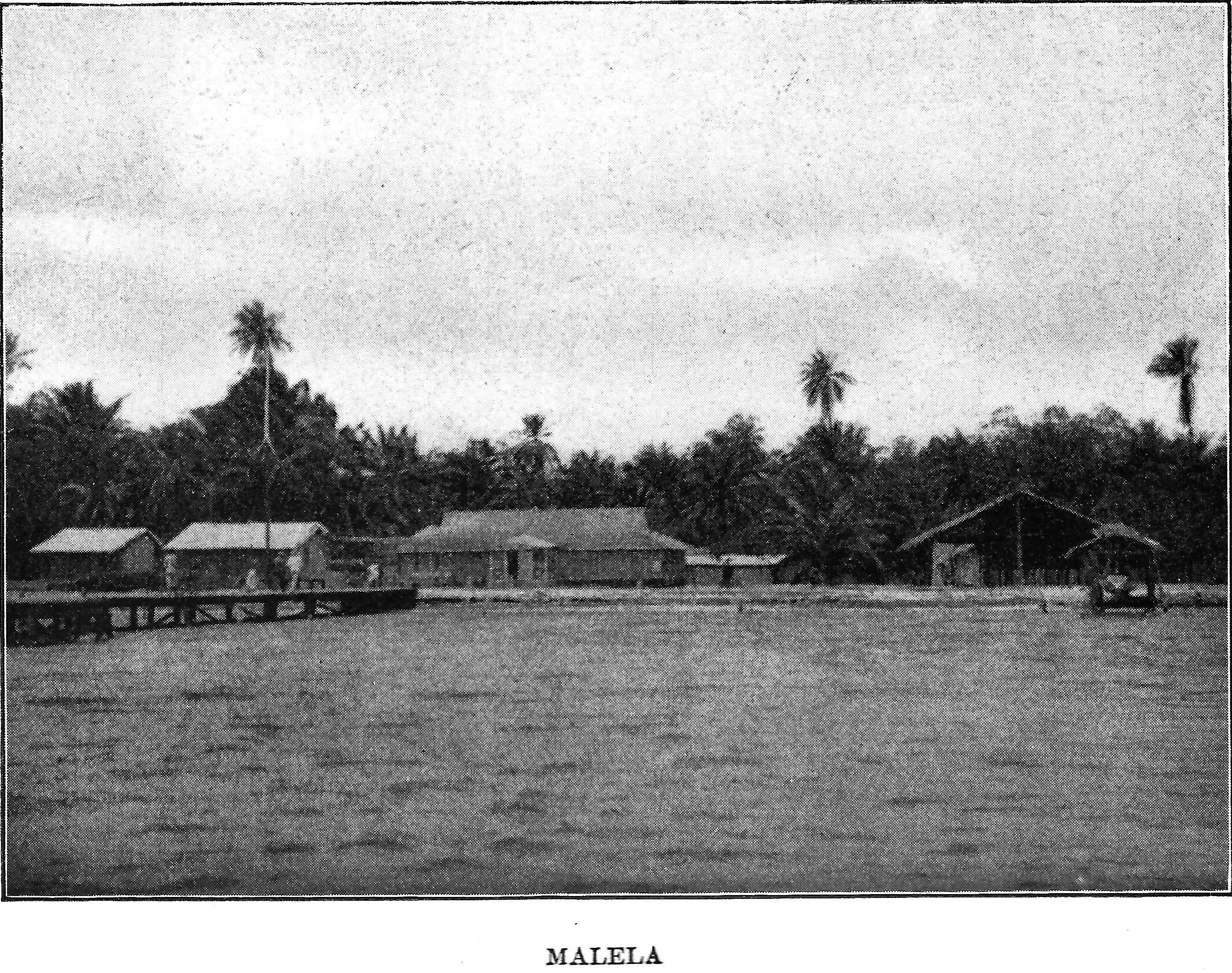 Malela waterfront on the Atlantic coast by the Congo river delta.